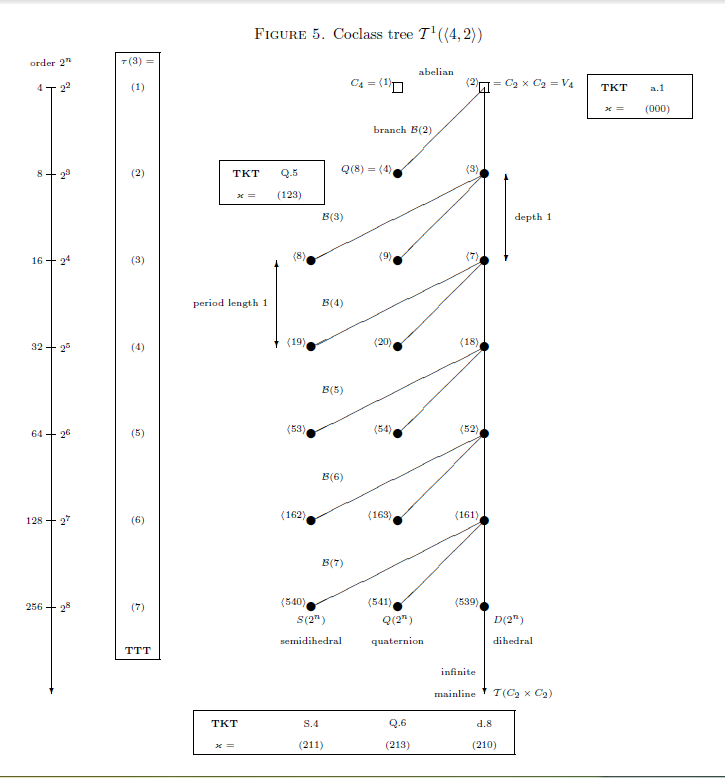 This diagram shows the tree of finite 2-groups of coclass 1, i.e., of maximal class, and the isolated vertex C(4). All vertices are labelled with their SmallGroups Library identifier in angle brackets. TTT means transfer target type. TKT means transfer kernel type. User:DanielConstantinMayer added the png-file "Coclass1Tree2Groups"